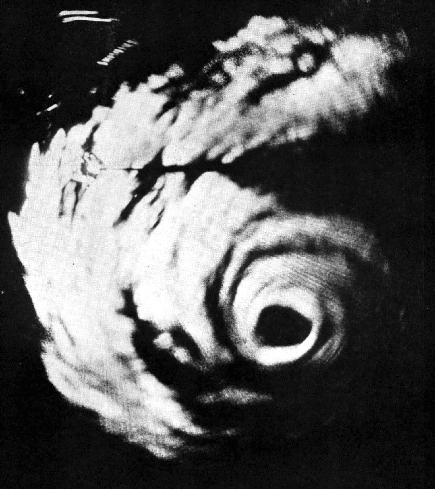 The Hurricane "Gracie", as seen on a U.S. Navy radar scope. Hurricane "Gracie" was a major hurricane that formed in September 1959, the strongest during the 1959 Atlantic hurricane season and the most intense to strike the United States since Hurricane "Hazel" in 1954.